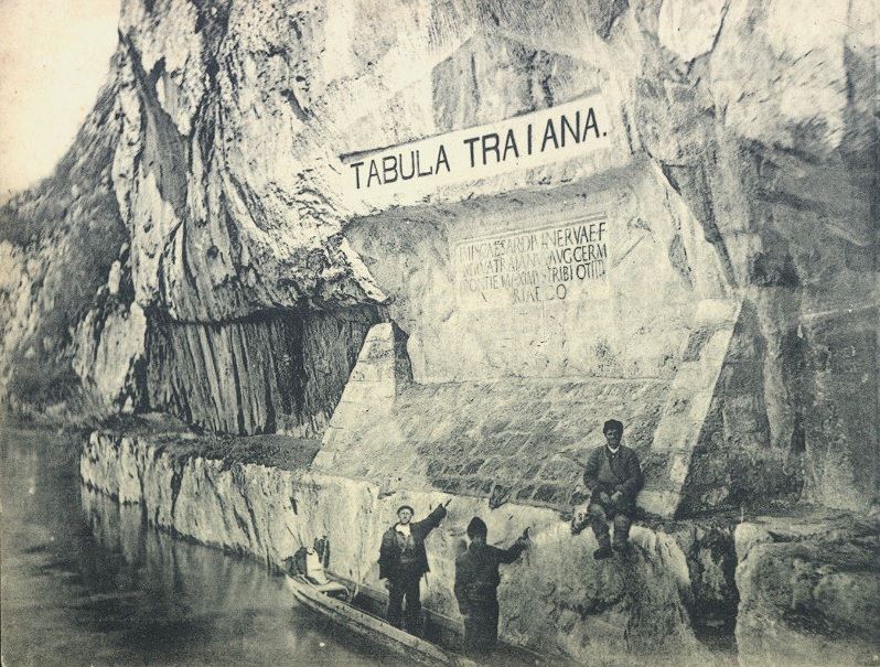 Trajan's Tablet also known as Tabula Traiana. Postcard of the Tabula Traiana plaque that is found in the Iron Gate gorge of the Danube on the Serbian coast. IMP(ERATOR) CAESAR DIVI NERVAE F(ILIUS) NERVA TRAIANVS AVG(USTUS) GERM (ANICUS) PONTIF (EX) MAXIMUS TRIB (UNICIA) POT(ESTATE) IIII PATER PATRIAE CO (N)S(UL) III MONTIBVUS EXCISI[S] ANCO[NI]BVS SVBLAT[I]S VIA[M ] [R]E[FE]CIT